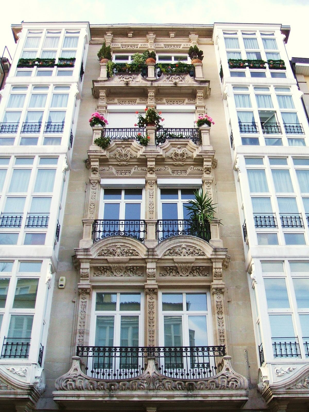 Fachada con miradores en la Plaza de la Virgen Blanca, Vitoria-Gasteiz